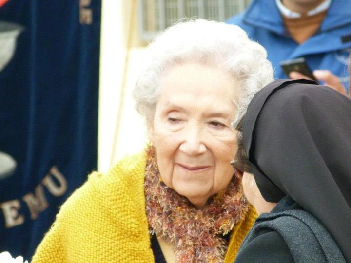 Cristina Barra, primera profesora de la Escuela Dr. Díaz Lira de Pichilemu, Chile.